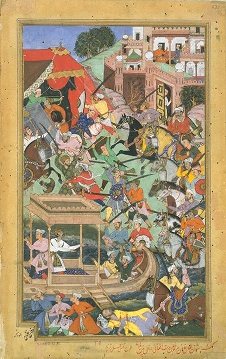 Bairam Khan is assassinated by Haji Khan Mewati and Afghans at Patan (Gujrat), 1561, Akbarnama.